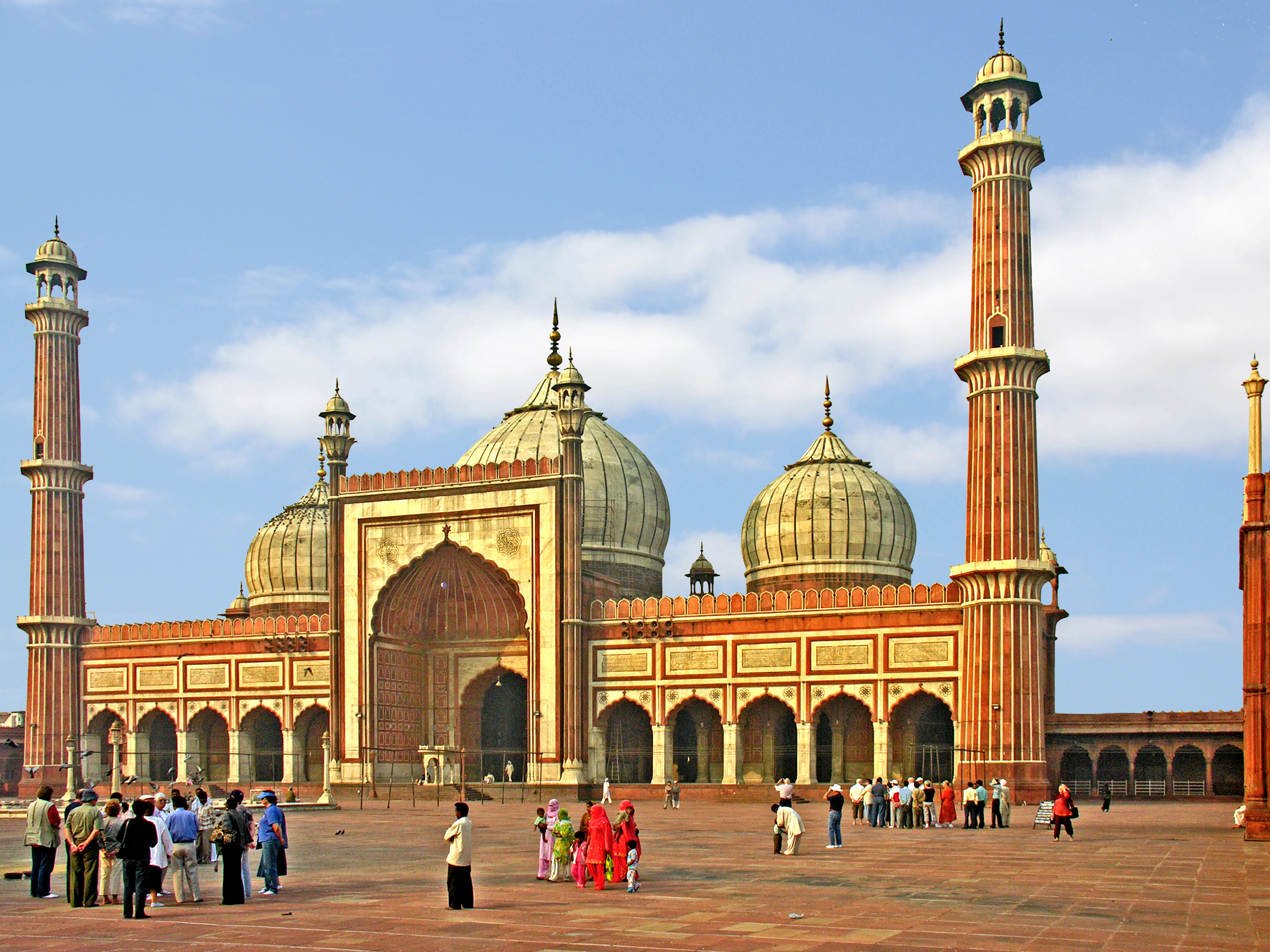 PLEASE, no multi invitations, glitters or self promotion in your comments. My photos are FREE for anyone to use, just give me credit and it would be nice if you let me know. Thanks - NONE OF MY PICTURES ARE HDR. The Jamia Masjid (mosque) of Delhi is the largest, finest and is among the most famous mosques of India, built by Shah Jahan, the Mughal Emperor in the year 1648 and took six years to complete. The main mosque is crowned by three onion shaped domes made of white marble and inlaid with stripes of black slate. On the north and south of the complex are two 130 feet high minarets. Jama Masjid is not only architecturally beautiful, but also a place of great religious significance as it houses a hair from the beard of the Prophet and also a chapter of the Holy Quran written by him.